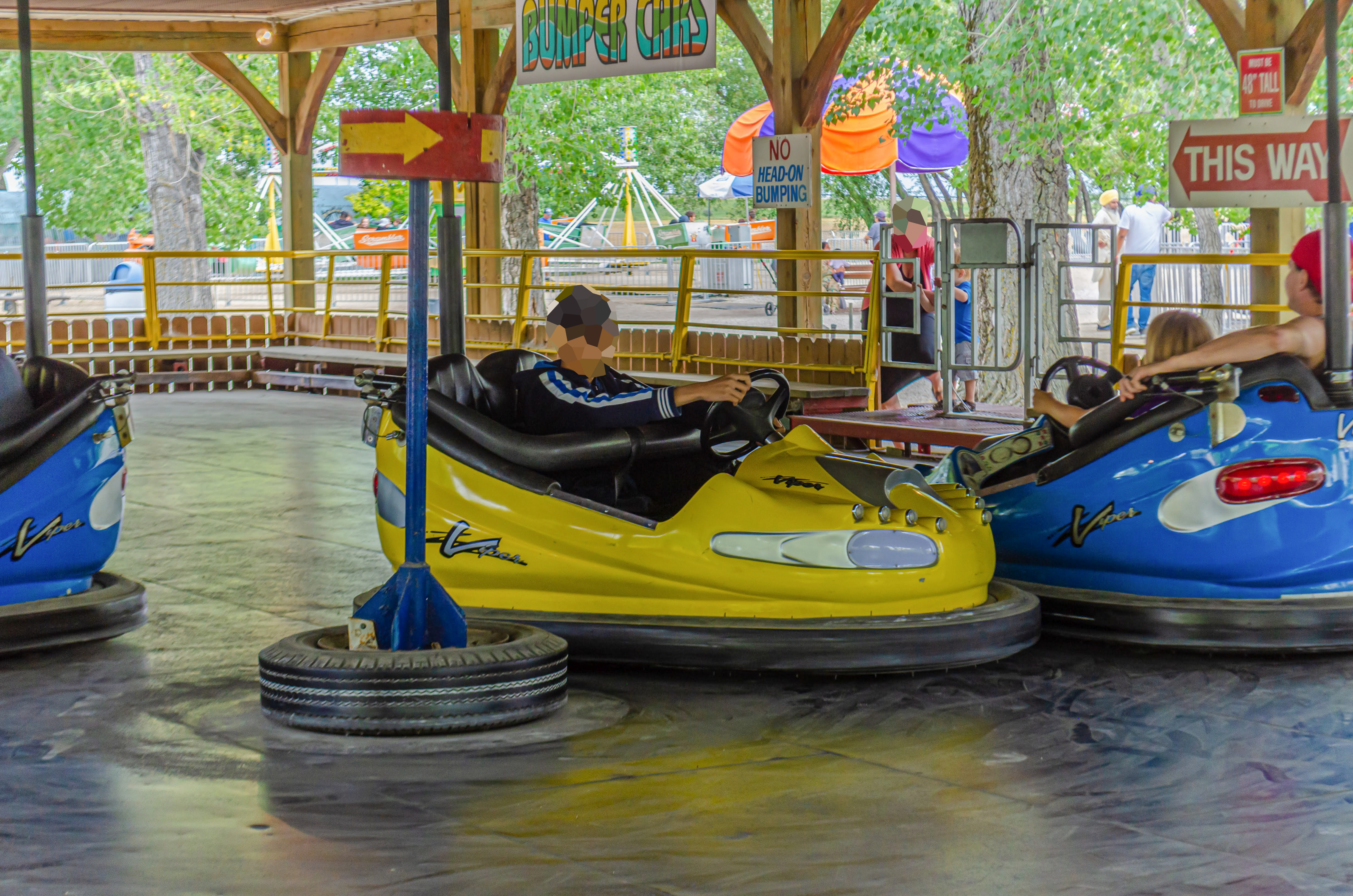 Bumper Cars in Winnipeg